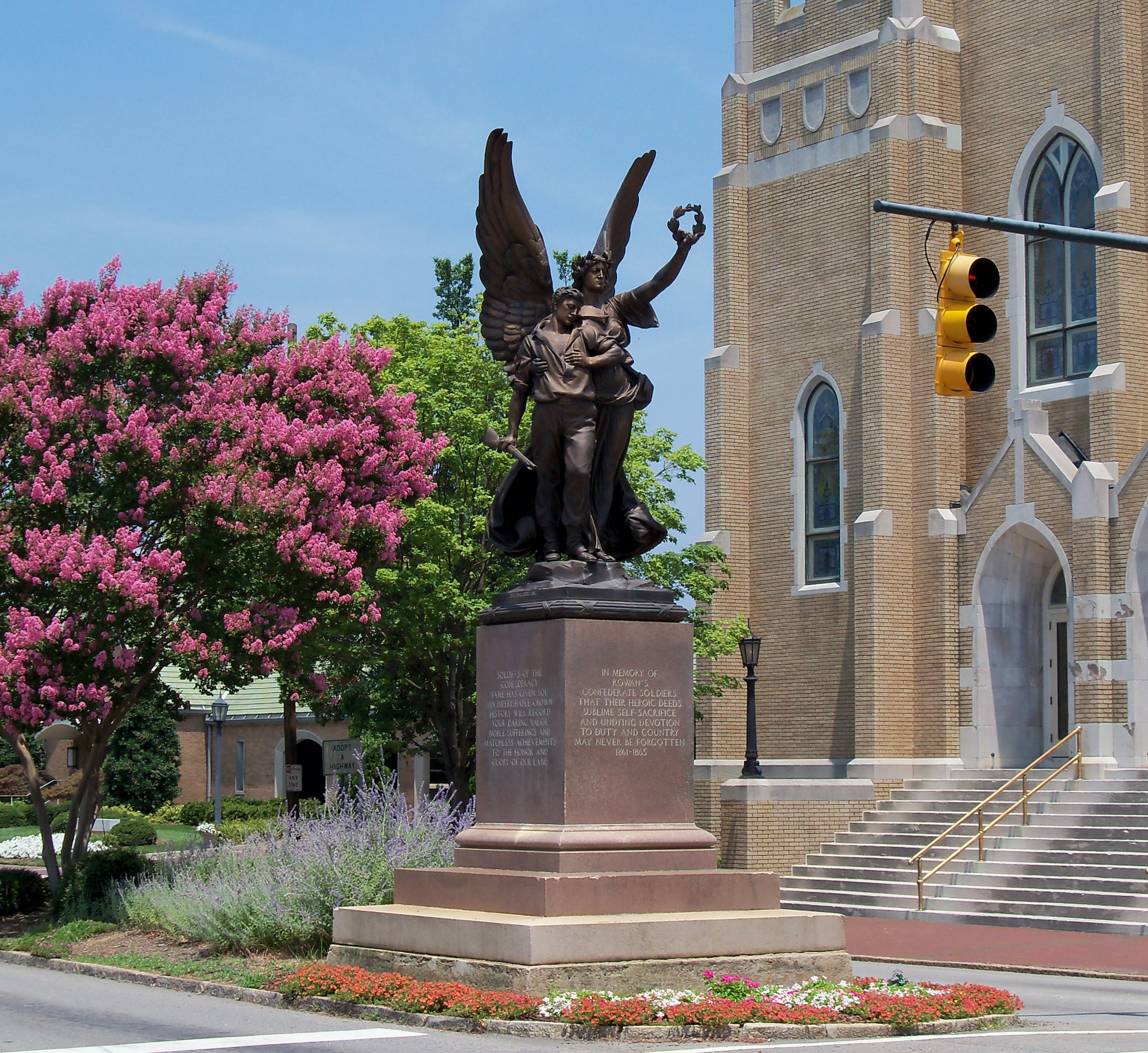 Gloria Victis ("Glory to the Defeated"), also called Fame Confederate Monument, by Frederick Ruckstull, in Salisbury, North Carolina.